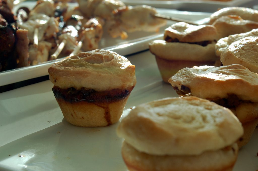 Bierocks are meat-filled pocket pastries originating in Eastern Europe, possibly in Germany or Russia. The pastries are filled with cooked and seasoned ground beef, shredded cabbage and onions, then oven baked until the dough is golden brown. Some variants include grated carrots.